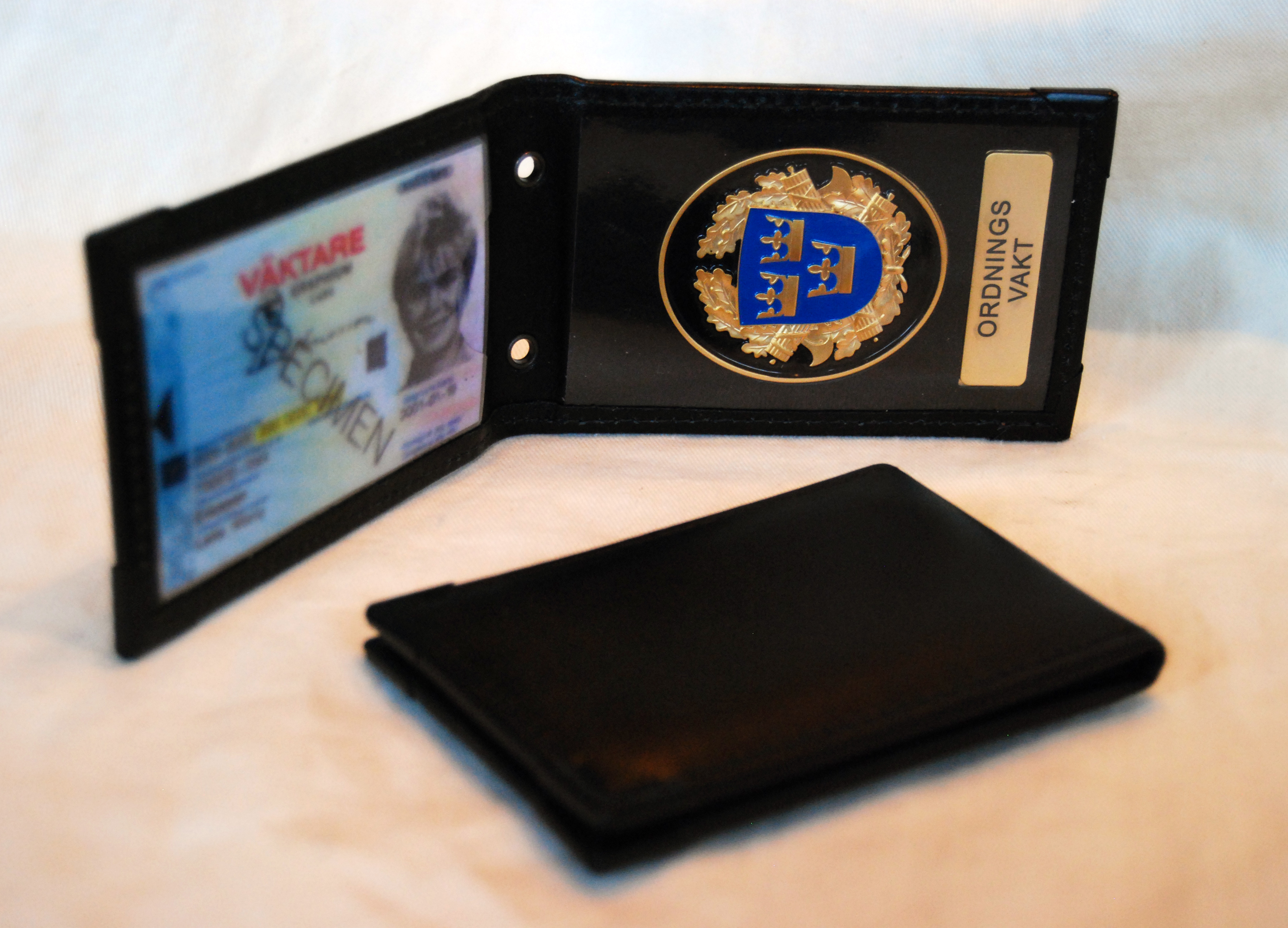 Badge wallet for security guards in Sweden. Model 2014